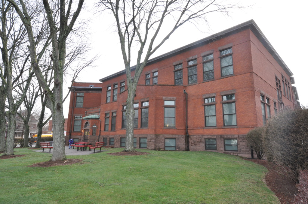 Washington Street School, Hartford, Connecticut. View from Washington Street.